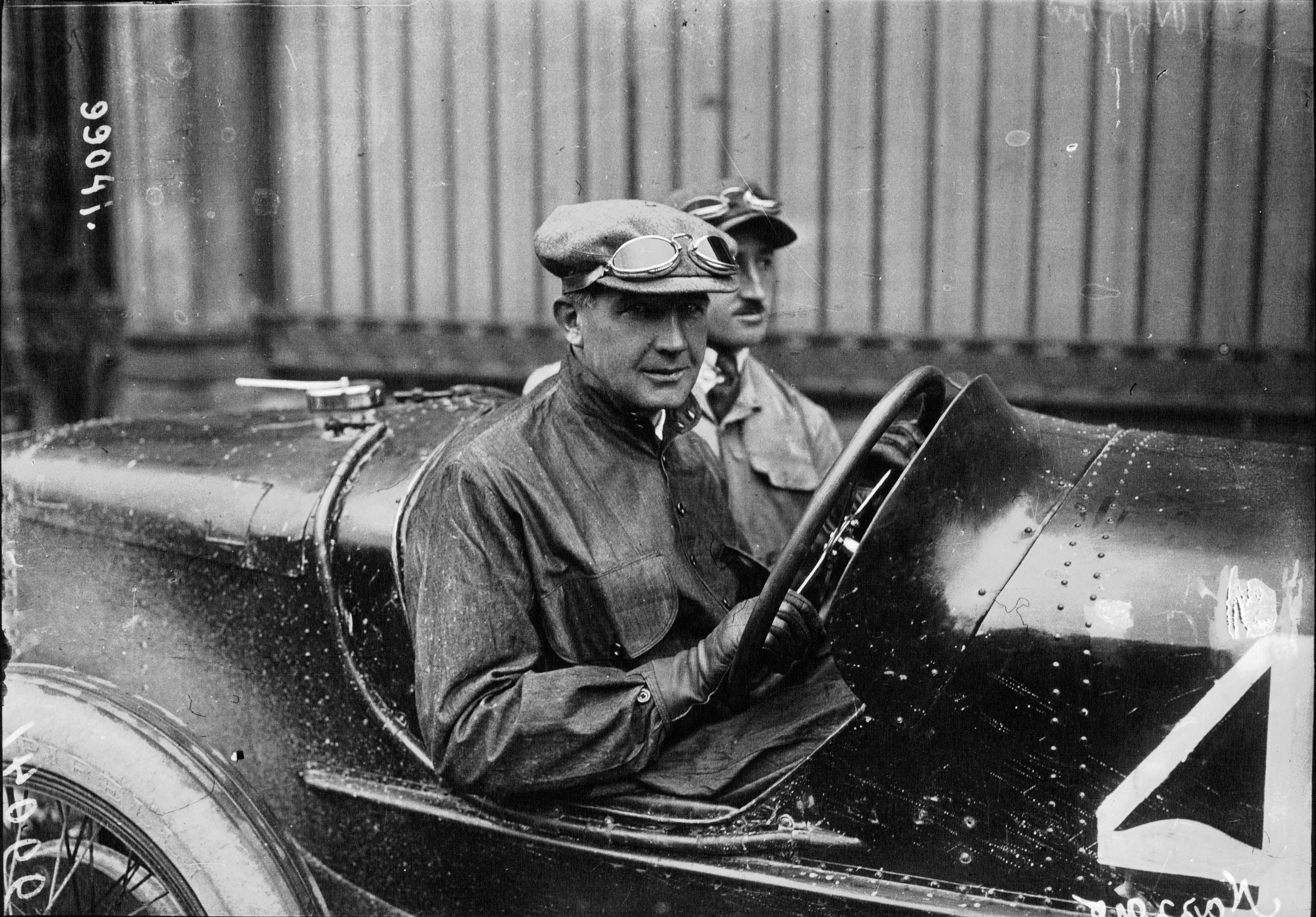 Felice Nazzaro at the 1922 French Grand Prix